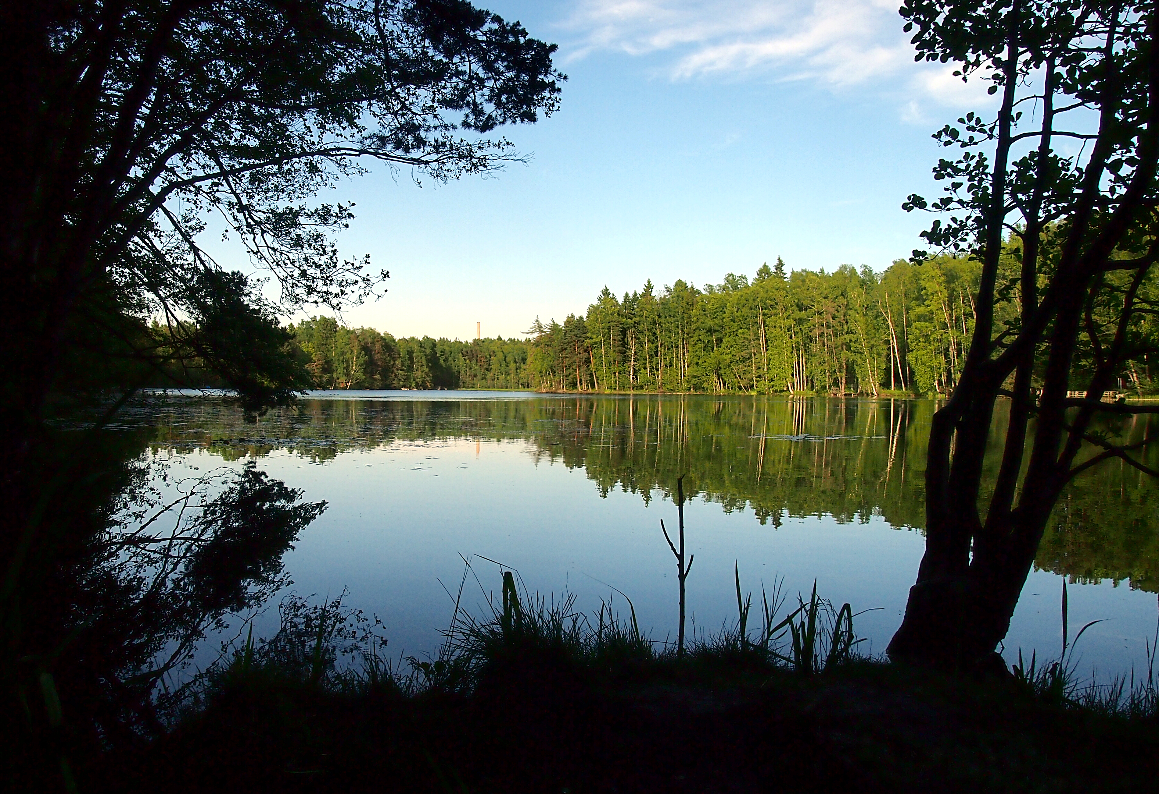 The lake Hannusjärvi in Espoo near Helsinki, Finland.